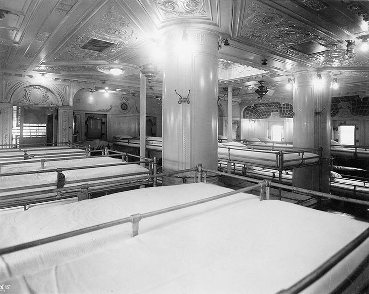 USS Mount Vernon (1917-1919): View in the ship's hospital ward, 1918, showing elegant decor installed when she was the German passenger liner Kronprinzessin Cecilie.